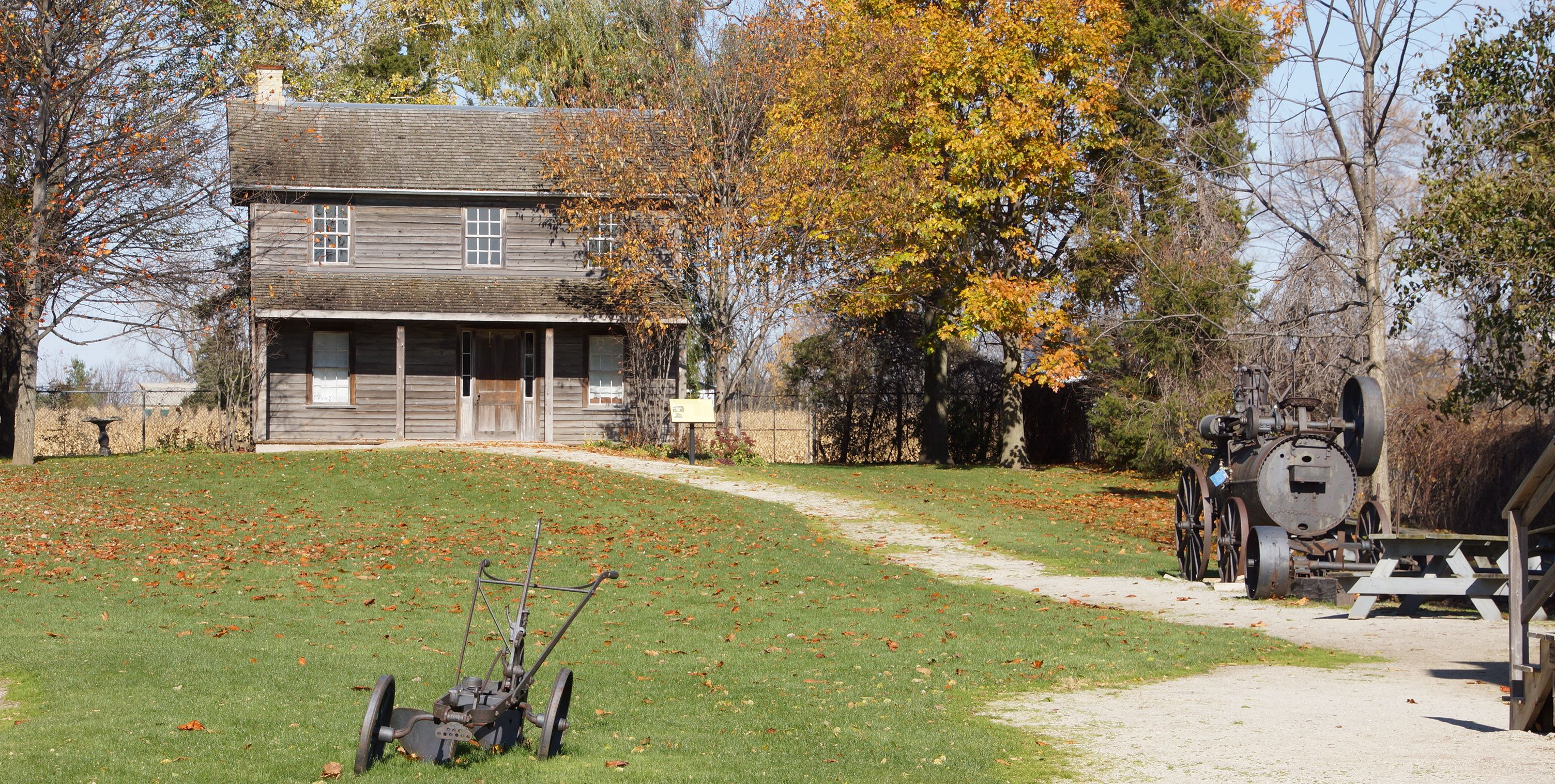 Uncle Tom's Cabin Historic Site